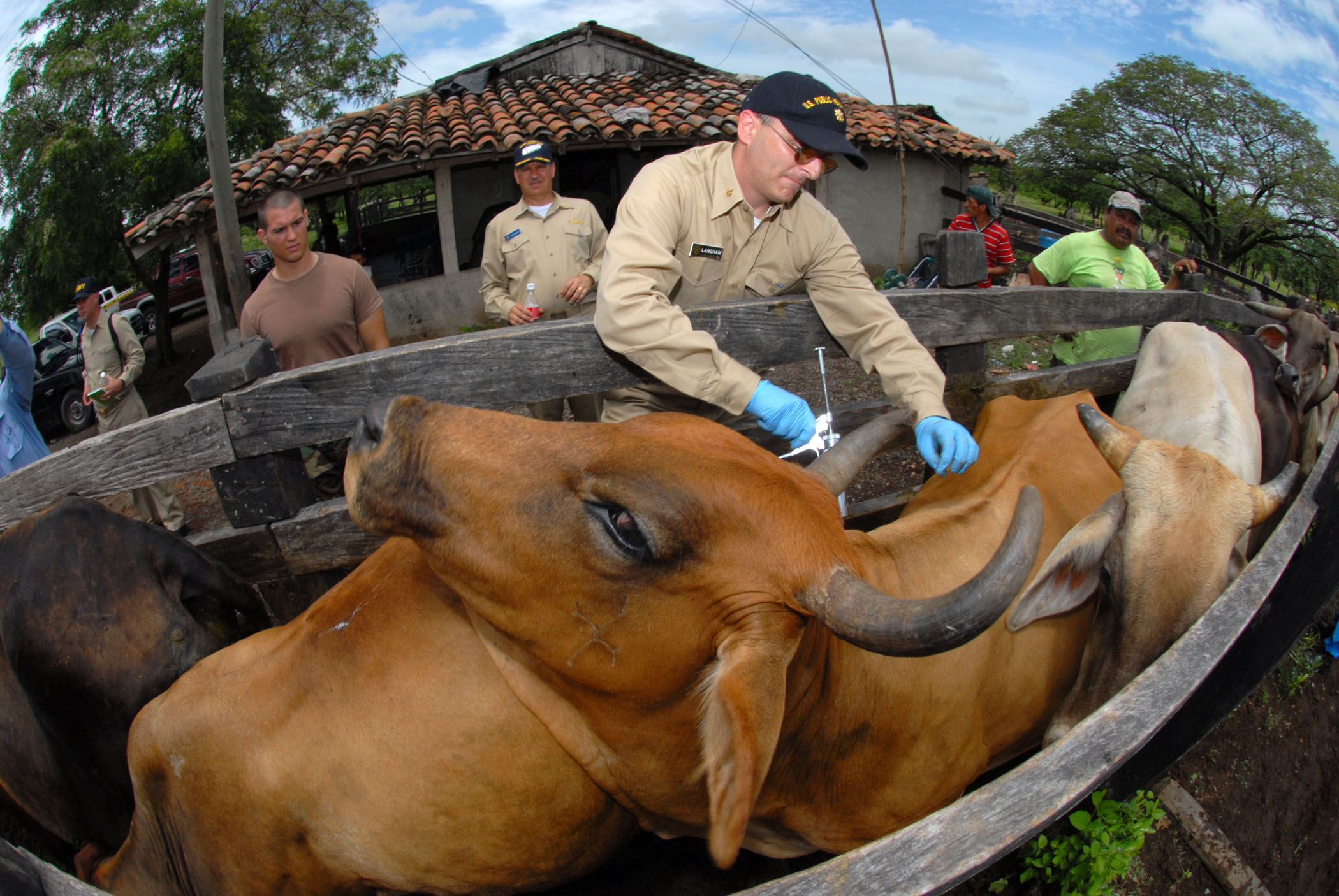 VILLANUEVA, Nicaragua (July 20, 2007) - Lt. Cmdr. Gregg Langham, a U.S. Public Health Service veterinarian attached to Military Sealift Command hospital ship USNS Comfort (T-AH 20), injects cattle with anti-parasite vaccination at the Dos Potrillos Ranch. Comfort is on a four-month humanitarian deployment to Latin America and the Caribbean to provide medical treatment to patients in a dozen countries. While deployed, Comfort is under the operational control of U.S. Naval Forces Southern Command and tactical control of Destroyer Squadron 24. U.S. Navy photo by Mass Communication Specialist 2nd Class Joshua Karsten (RELEASED)